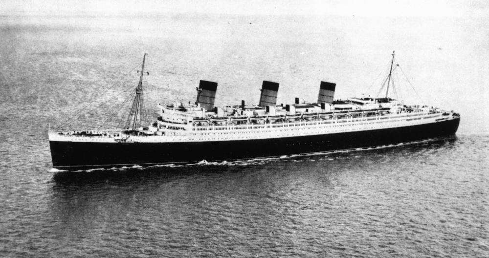 Queen Mary (ship) 81,237 tons.